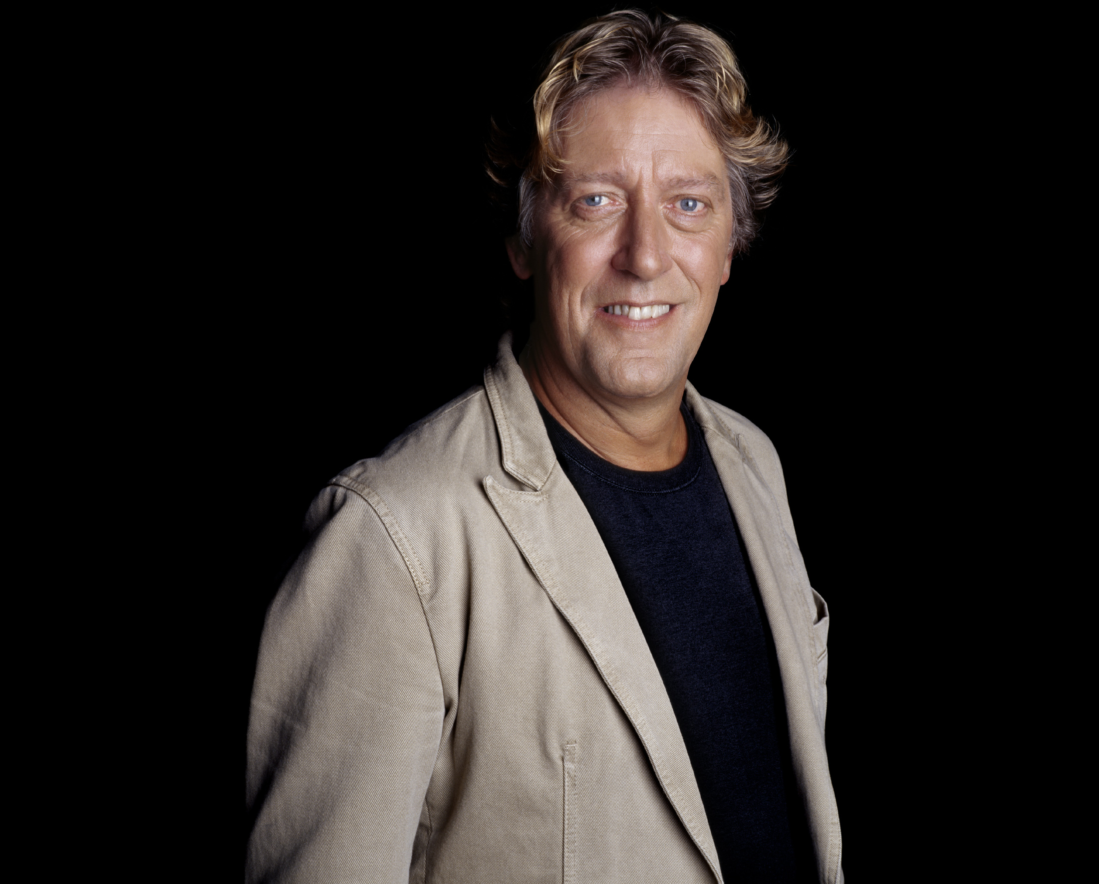 Ron Bisschop, Dutch radio host